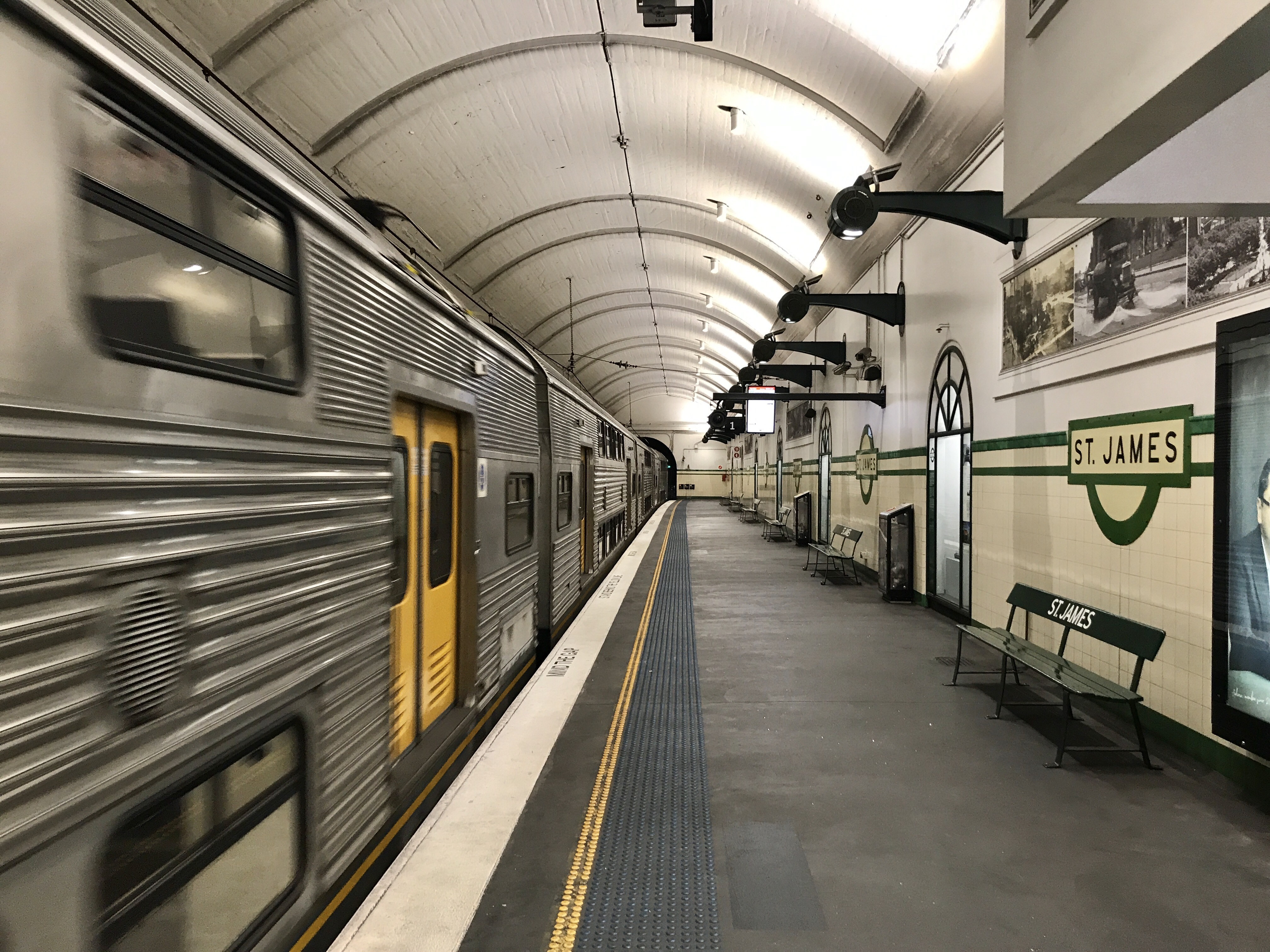 Platform at St James railway station, Sydney